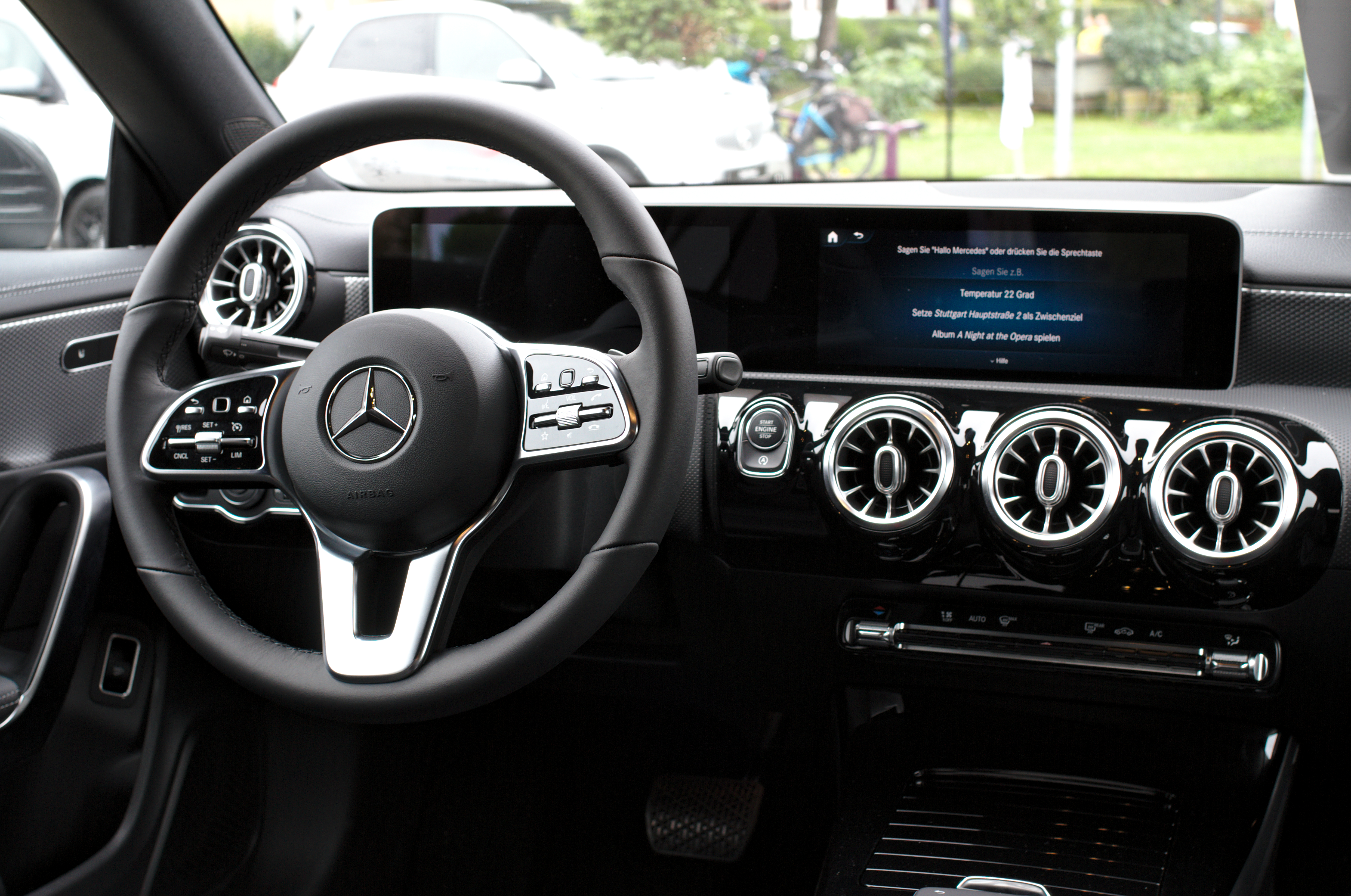 Mercedes-Benz_C118 at Leonberger Autoschau 2019